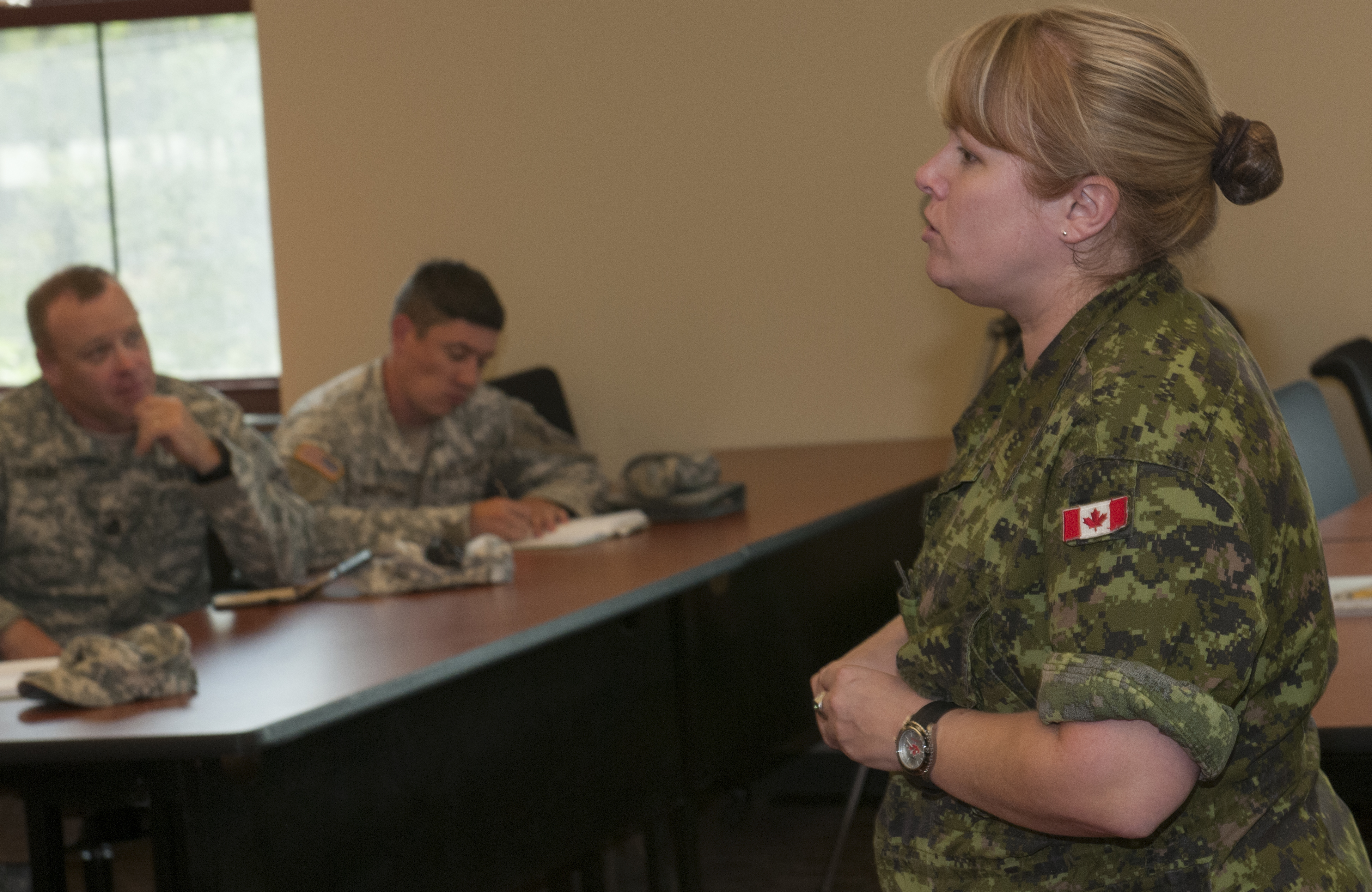 Lt. Col. Pelletier, 2nd Canadian Division, briefs Vermont Army National Guard Soldiers on integration of women in the Canadian Forces at Camp Ethan Allen Training Sites, Jericho, Vt., Sept. 12, 2015. Canadian Forces integrated women in combat arms occupations in 1989. (Photo by U.S. Army National Guard Pvt. Avery Cunningham)